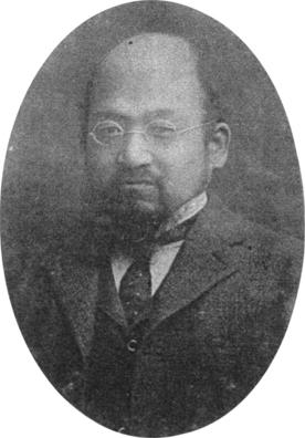 Sakai Sukeyasu, former director of the Sixth Higher School.